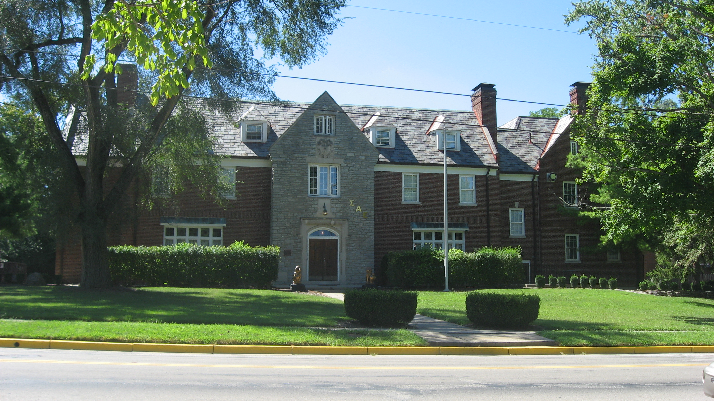 Front of the Sigma Alpha Epsilon Chapter House of Miami University, located at 310 Tallawanda Road in Oxford, Ohio, United States. This Sigma Alpha Epsilon chapter's fraternity house, built in 1938, is listed on the National Register of Historic Places.